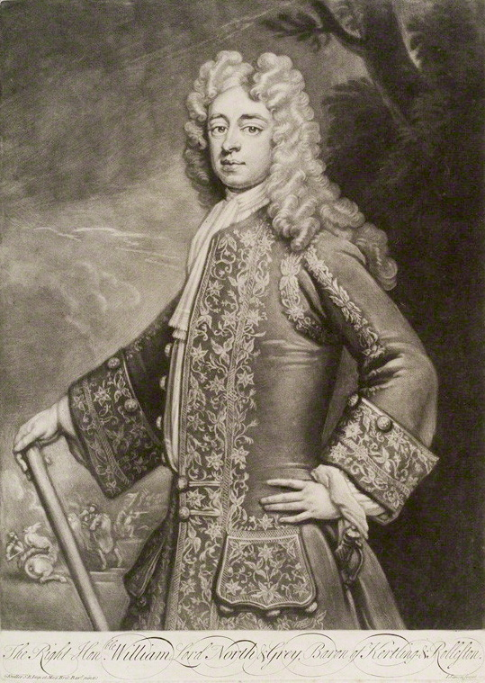 Mezzotint portrait of William North, 6th Baron North, 2nd Baron Grey (1678–1734)